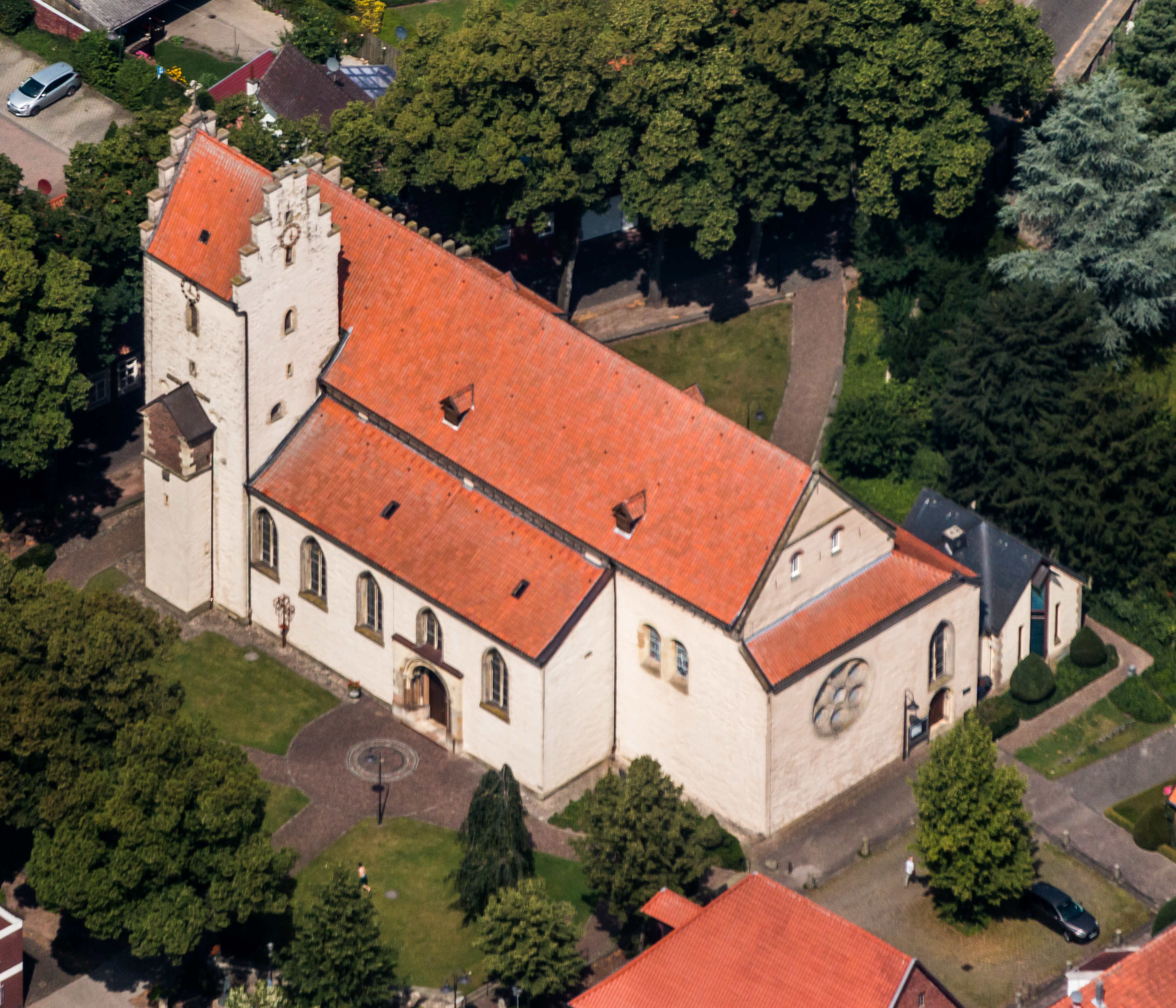 St. Cornelius and Cyprian Church, Metelen, North Rhine-Westphalia, Germany